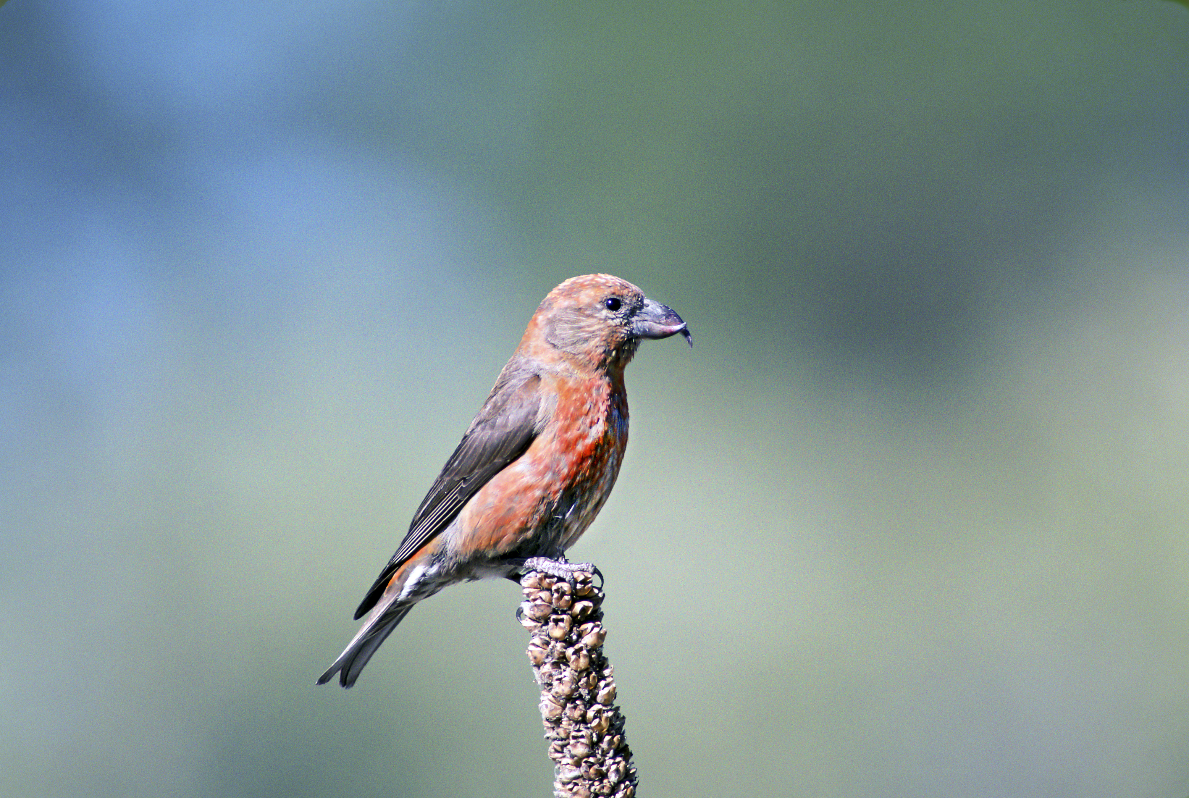 Red Crossbill (Loxia curvirostra) photographed in the Deschutes National Forest